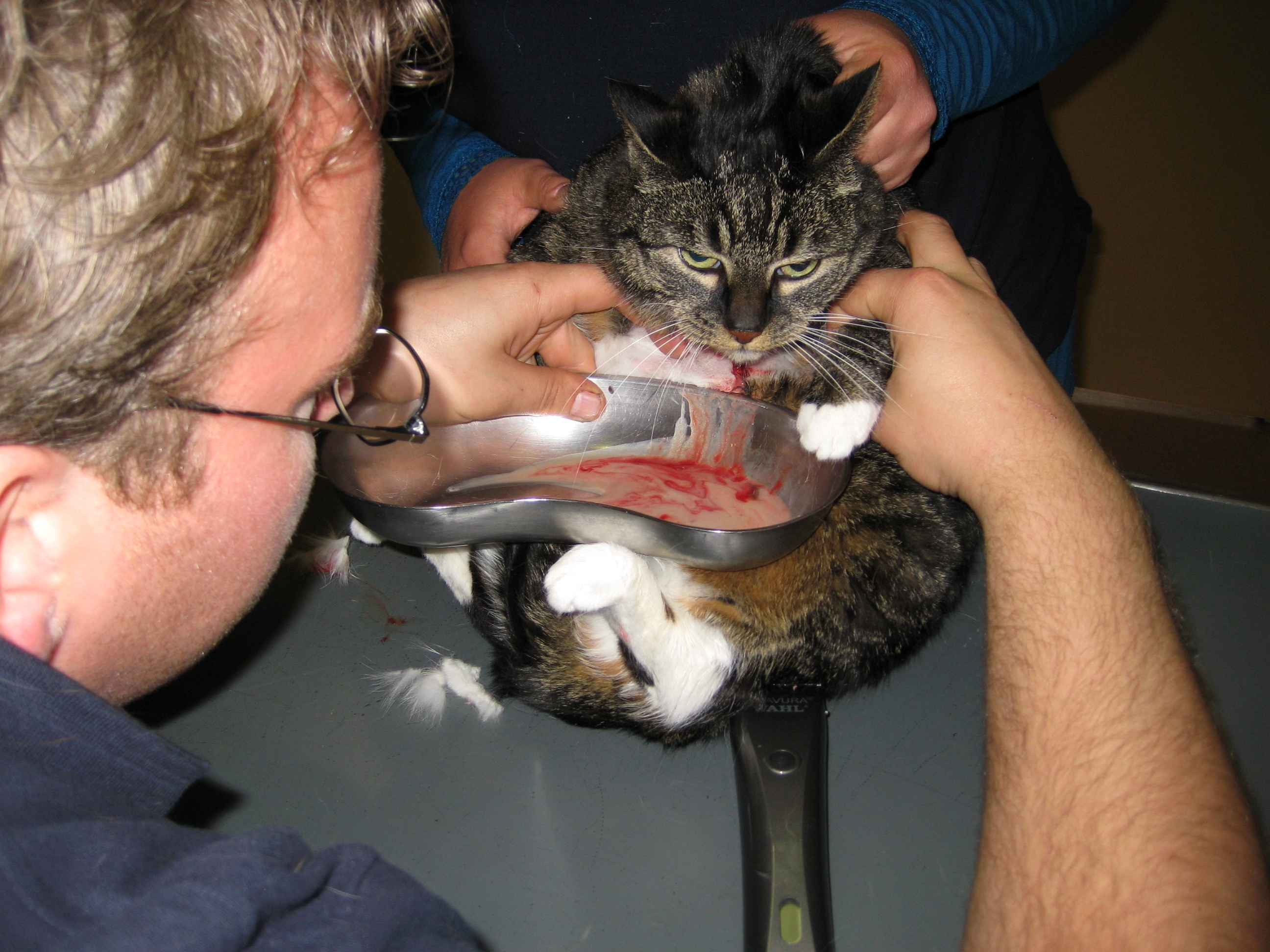 Eight years old female cat in the Dutch city of Groningen while being relieved from an inflammation in its chest by a veterinarian.